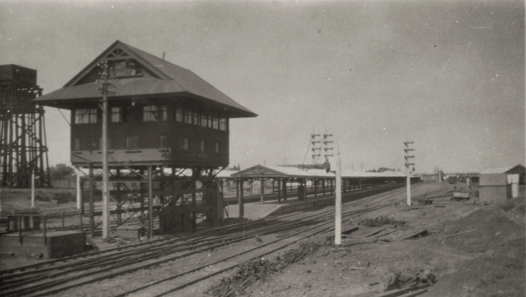 View of the eastern end of Kalgoorlie railway station, with the standard gauge Trans-Australian Railway tracks behind the signal box at left, and the main narrow gauge Eastern Goldfields Railway platform in the centre.